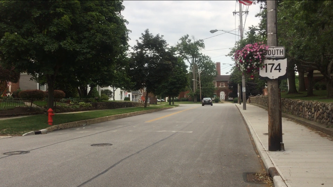 Near the northern terminus of SR 174